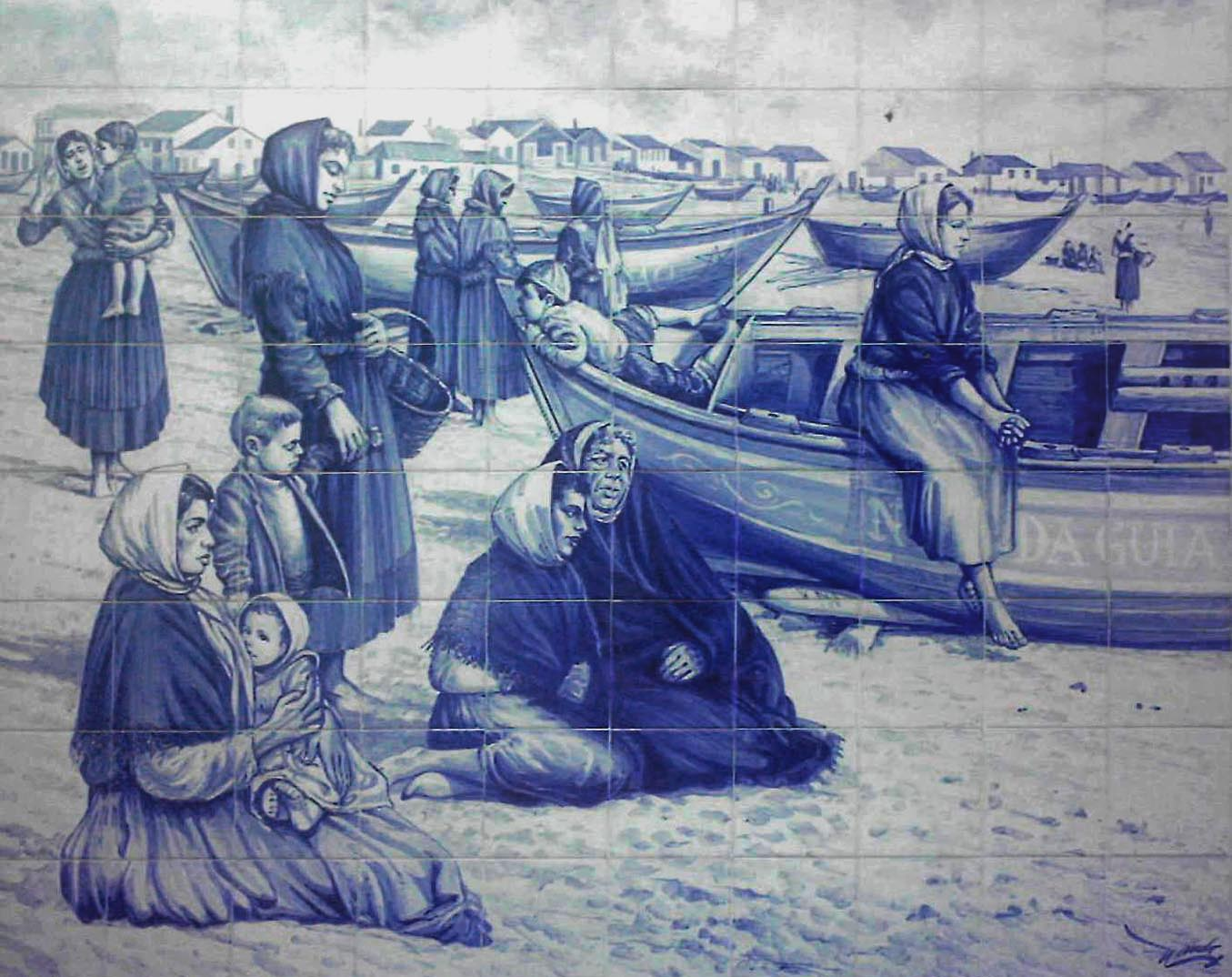 Azulejo with women practicing the "Soalheiro" - a cultural aspect of Póvoa de Varzim and consists in gattered in the sunny days in the beach to talk about their own lives or their neighbours'. But also waiting their husbands, brothers or sons that were in the sea fishing.